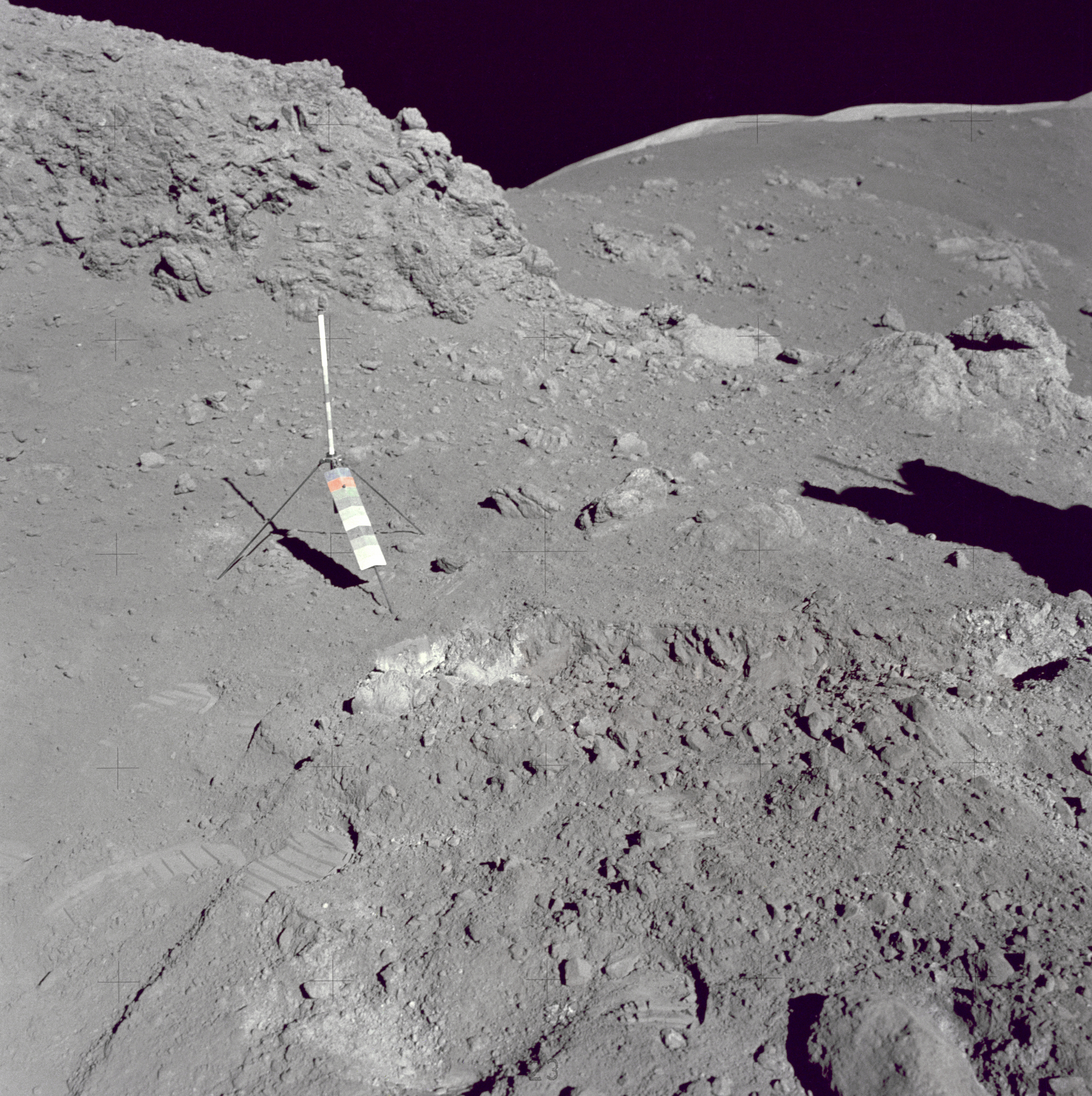 A view of the area at Station 4 (Shorty Crater) showing the highly- publicized orange soil which the Apollo 17 crewmen found on the Moon during the second Apollo 17 extravehicular activity (EVA-2) at the Taurus-Littrow landing site. The tripod-like object is the gnomon and photometric chart assembly which is used as a photographic reference to establish local vertical Sun angle, scale and lunar color. The Gnomon is one of the Apollo lunar geology hand tools.